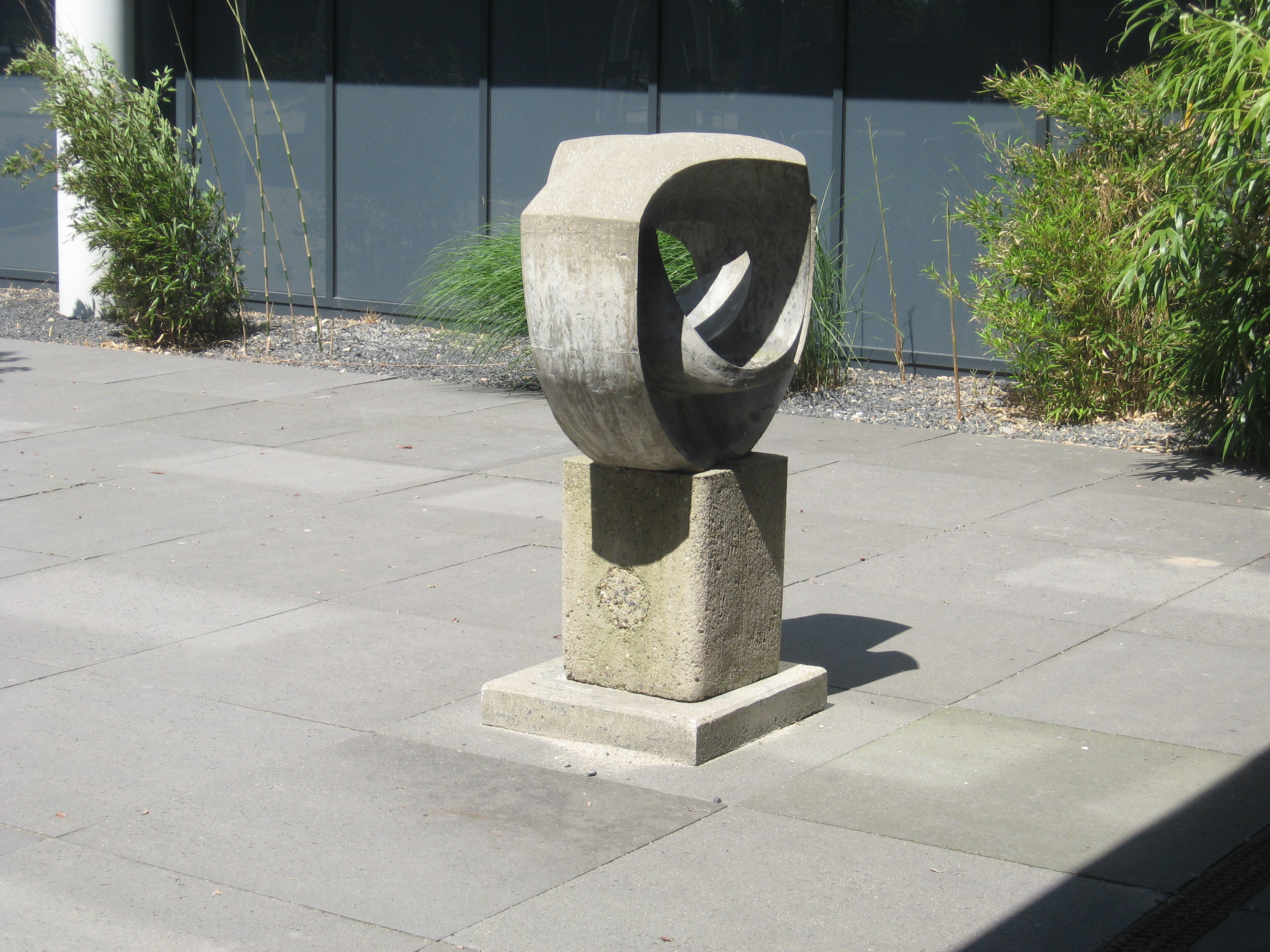 Before the townhall